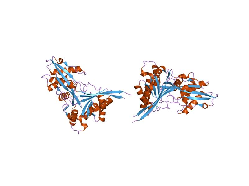 Cartoon representation of the molecular structure of protein registered with 1mg7 code.